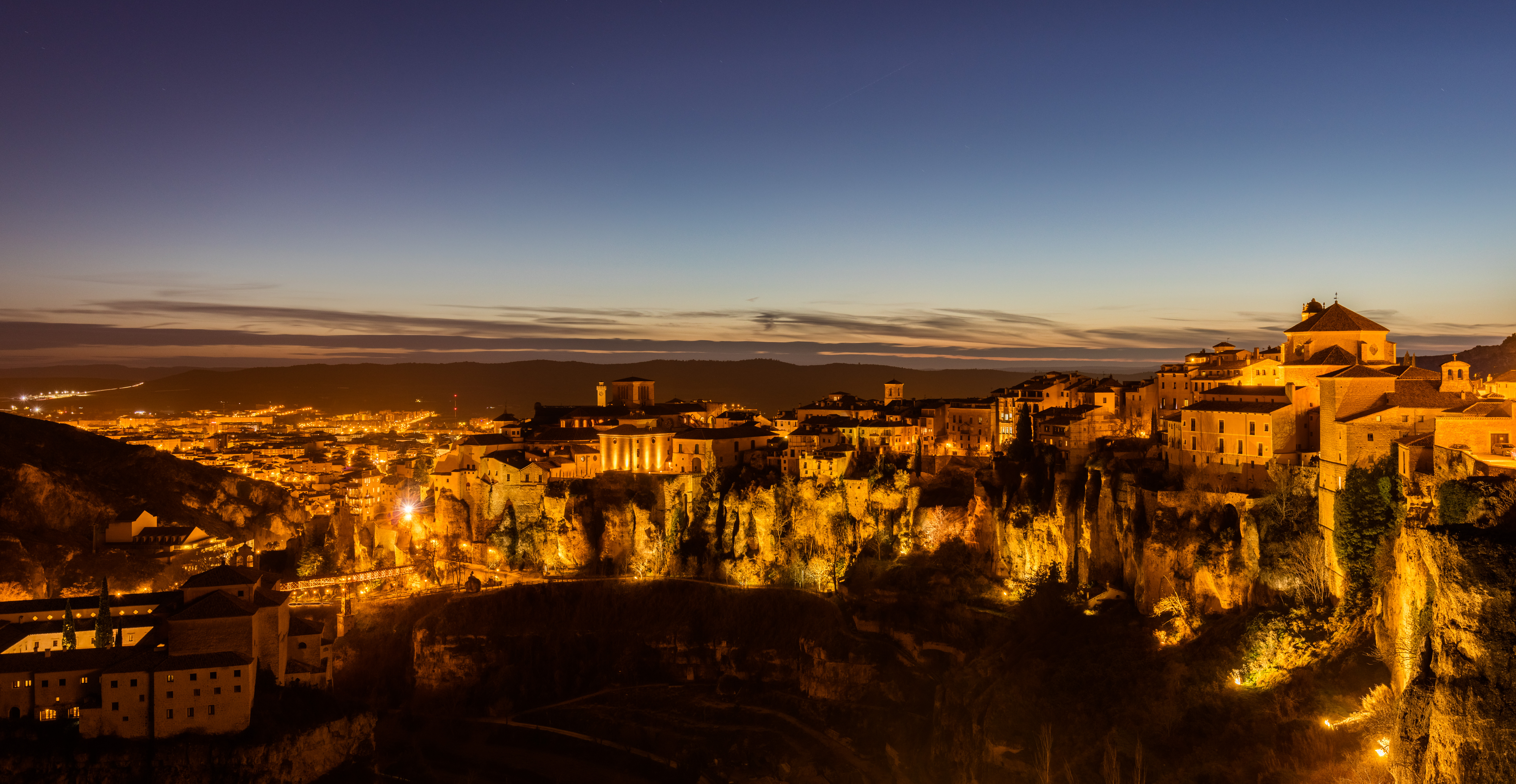 Casas colgadas, Cuenca, Spain